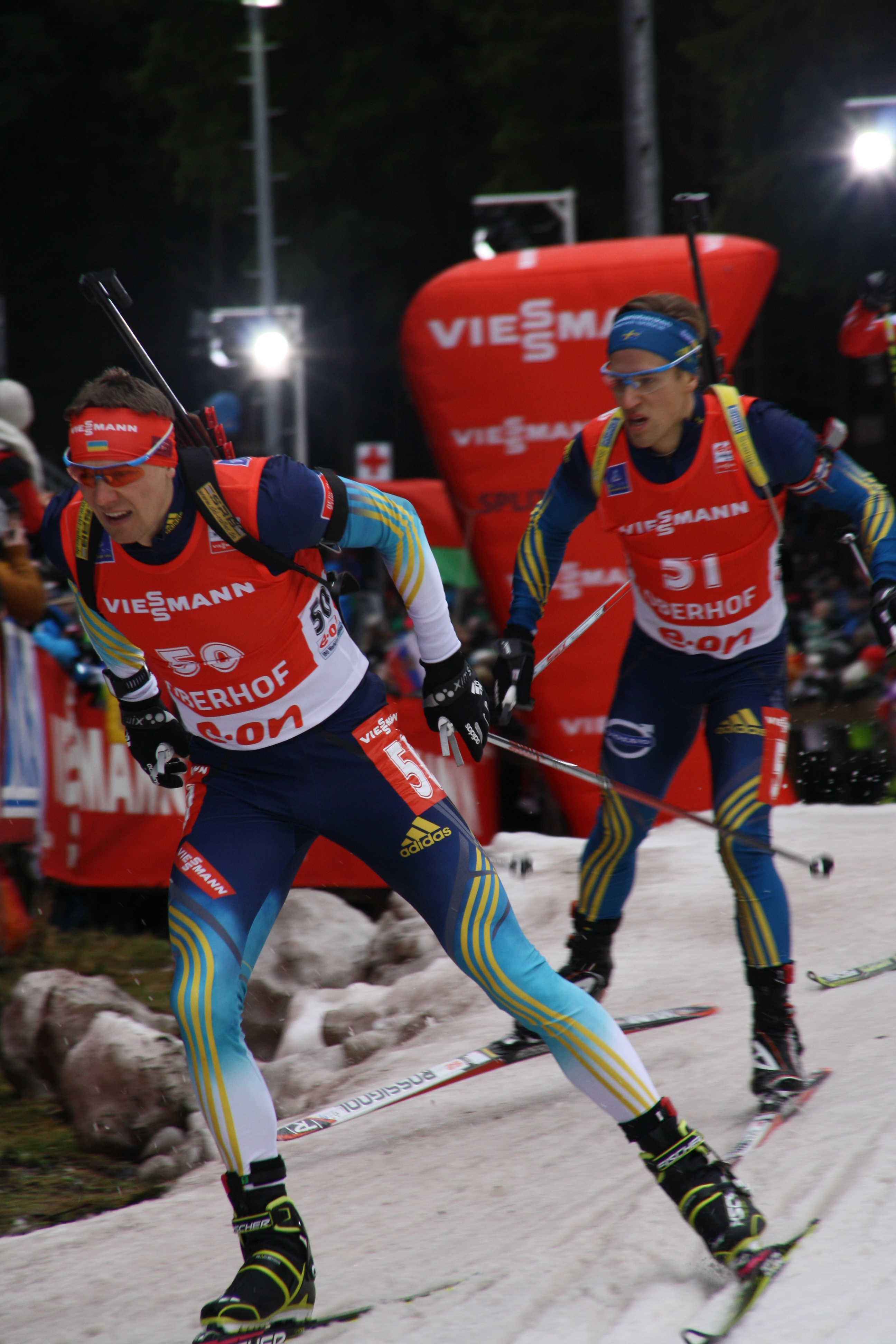 Biathlon World Cup Oberhof 2014 - Mens Pursuit